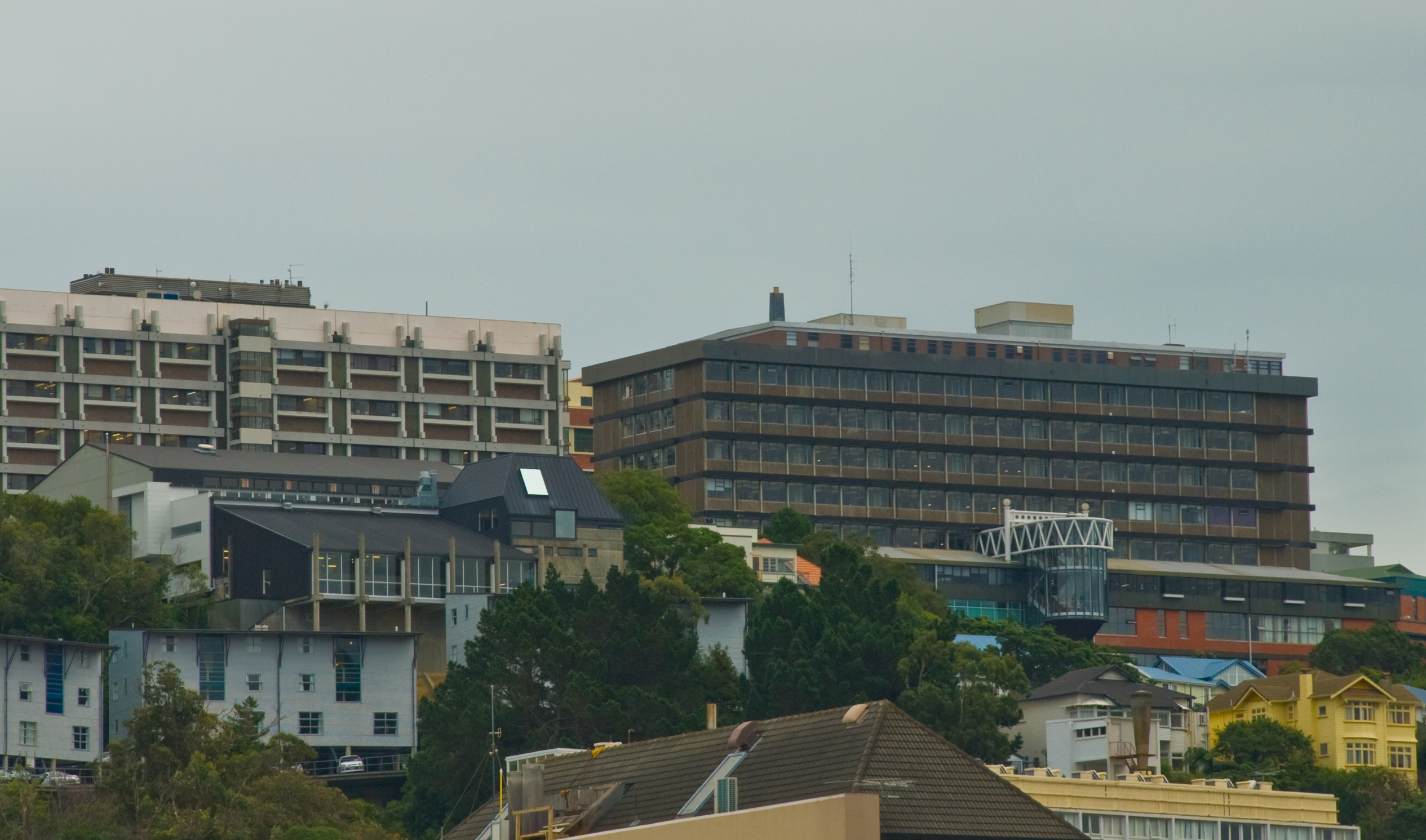 This photo was taken on July 17, 2008 using a Nikon D80.